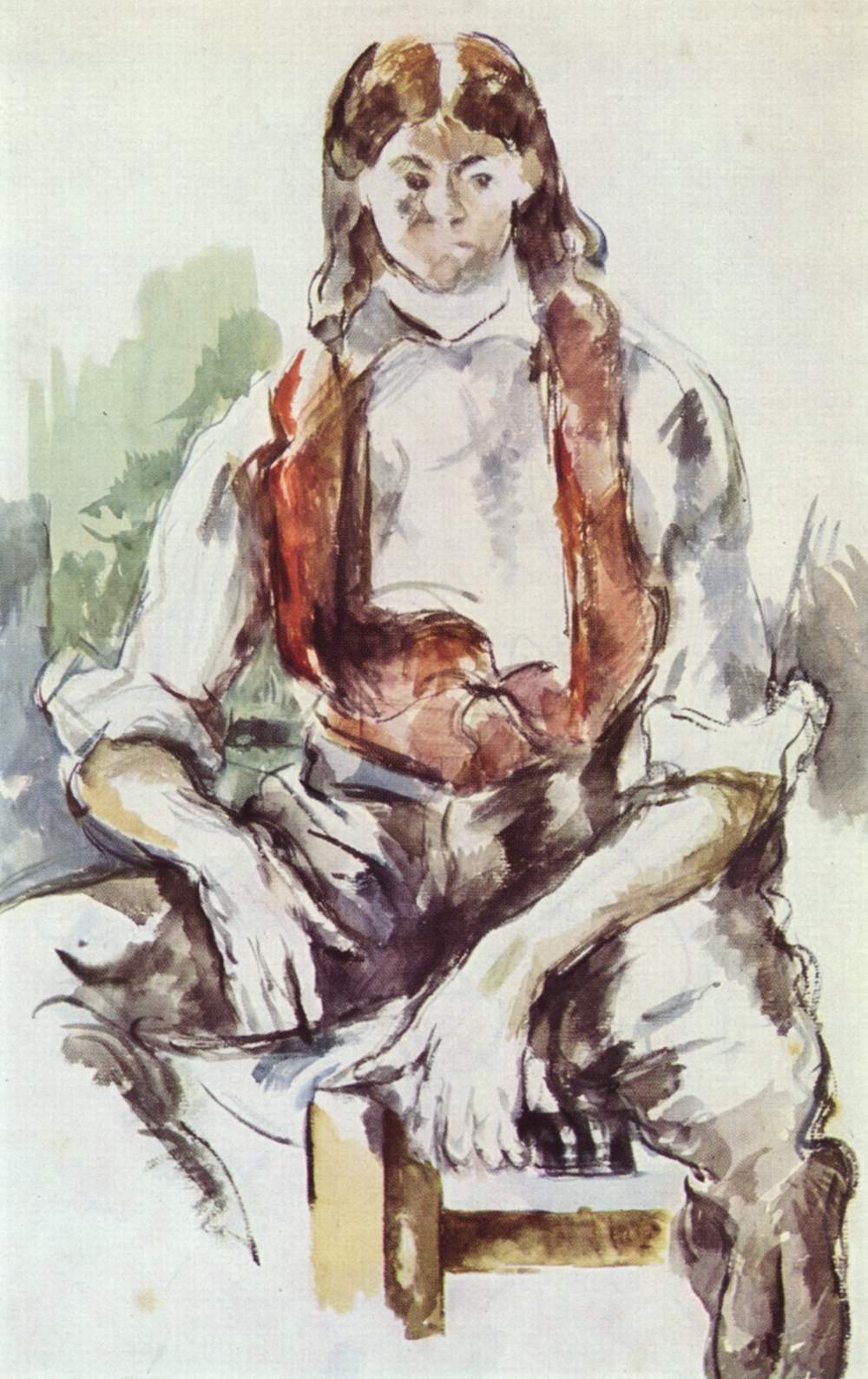 Boy in a Red Vest.